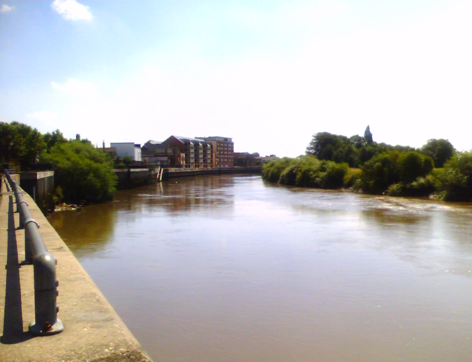 View of Gainsborough Riverside and River Trent. Photo by E Asterion u talking to me?